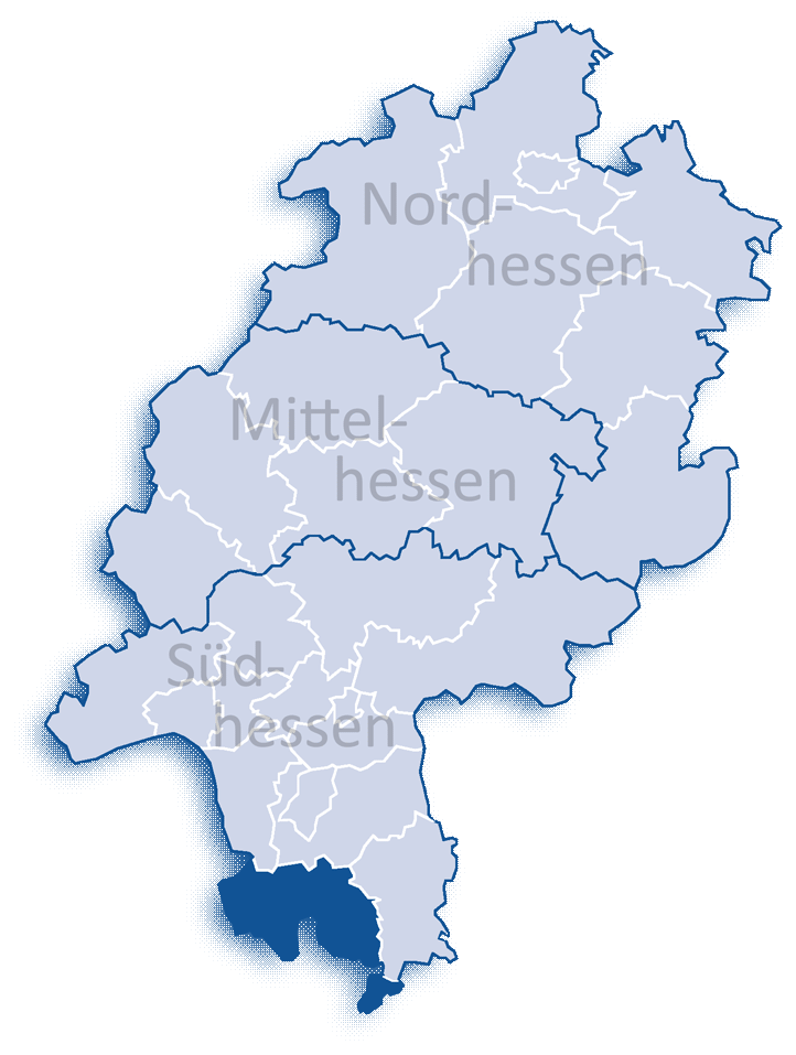 The map shows the district Bergstraße. A district in Hesse